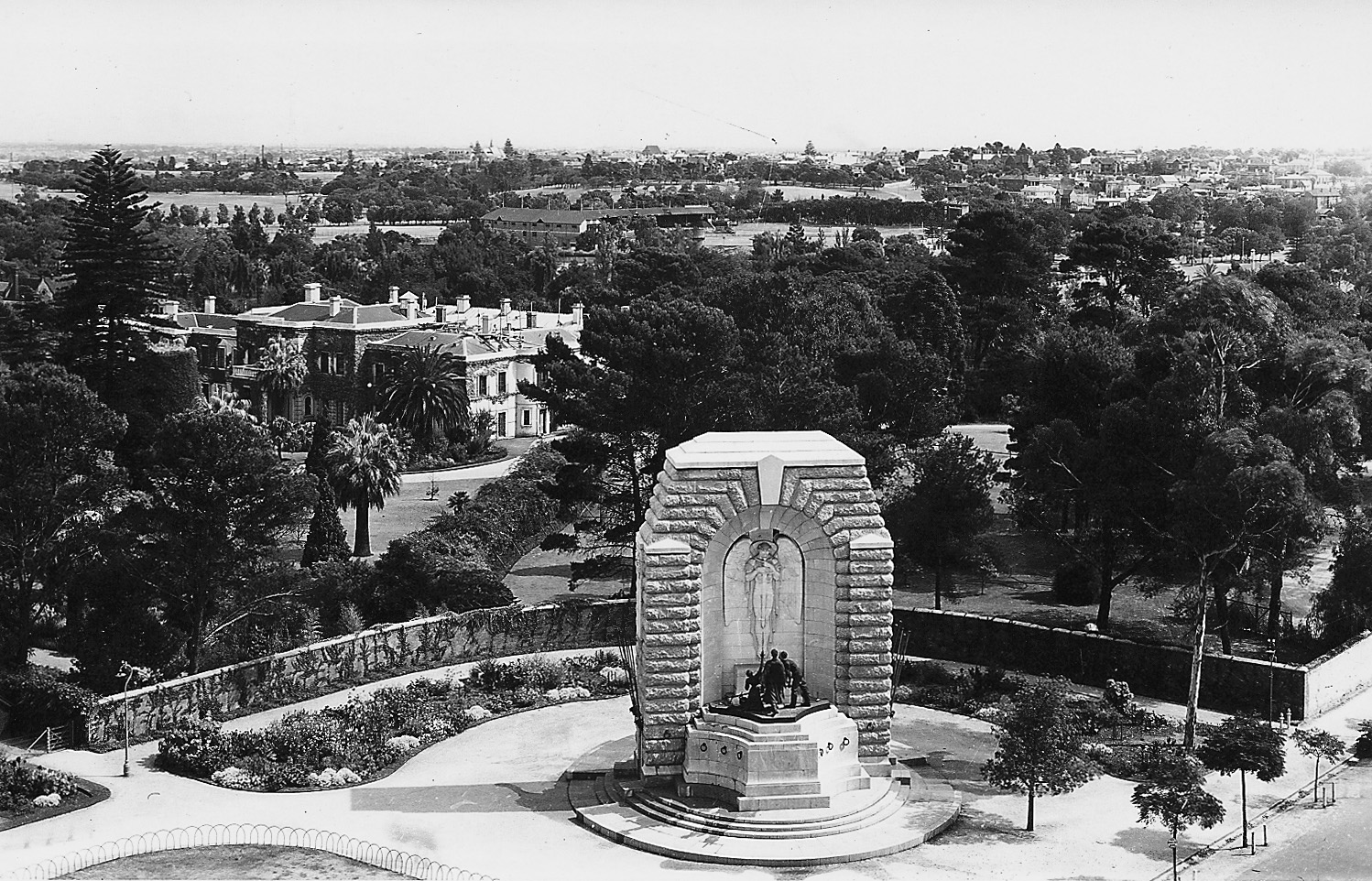 The National War Memorial in South Australia, showing its location when compared to Government House.